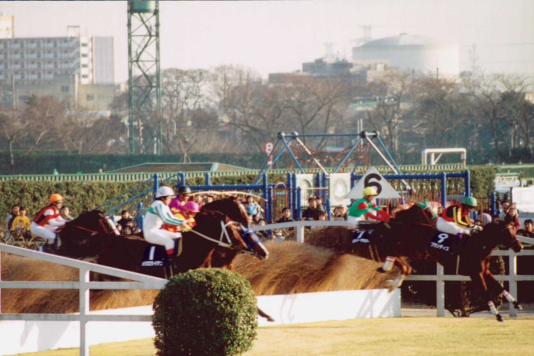 The 125th Nakayama Daishogai horserace